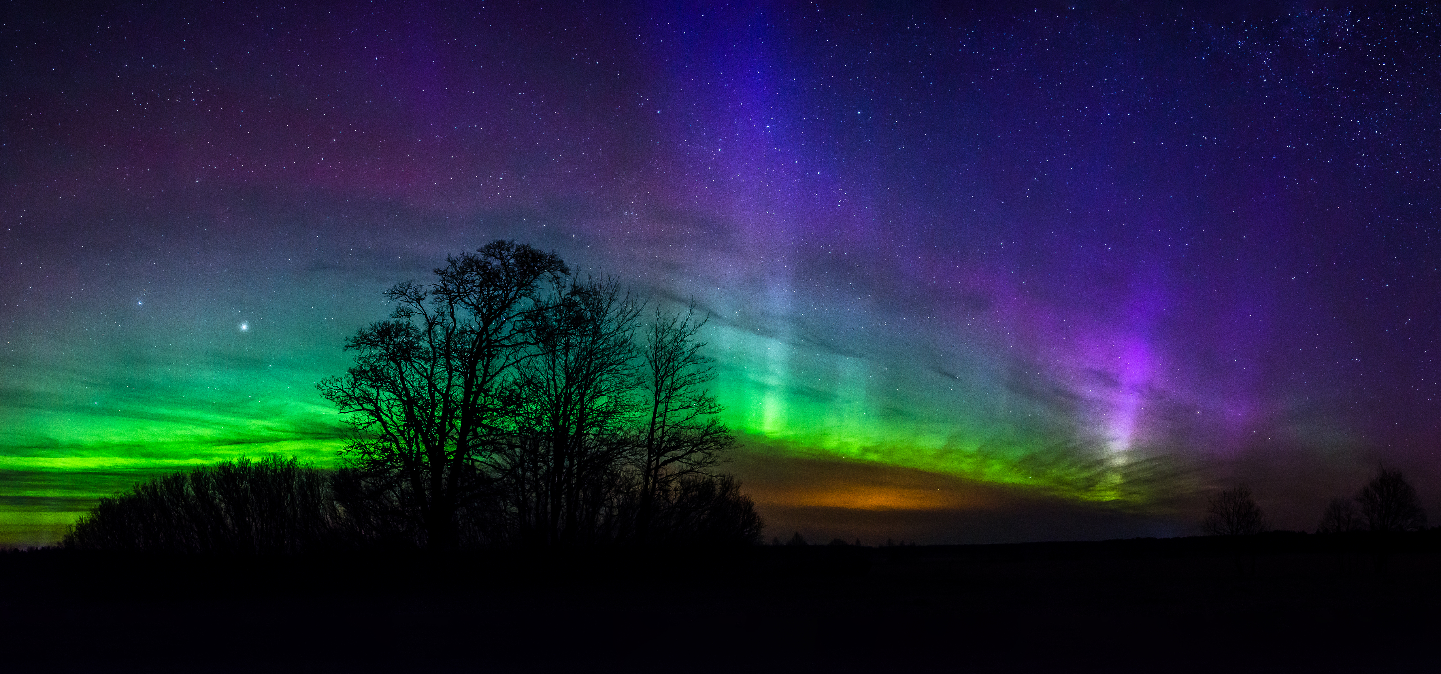 Aurora Borealis in Estonia